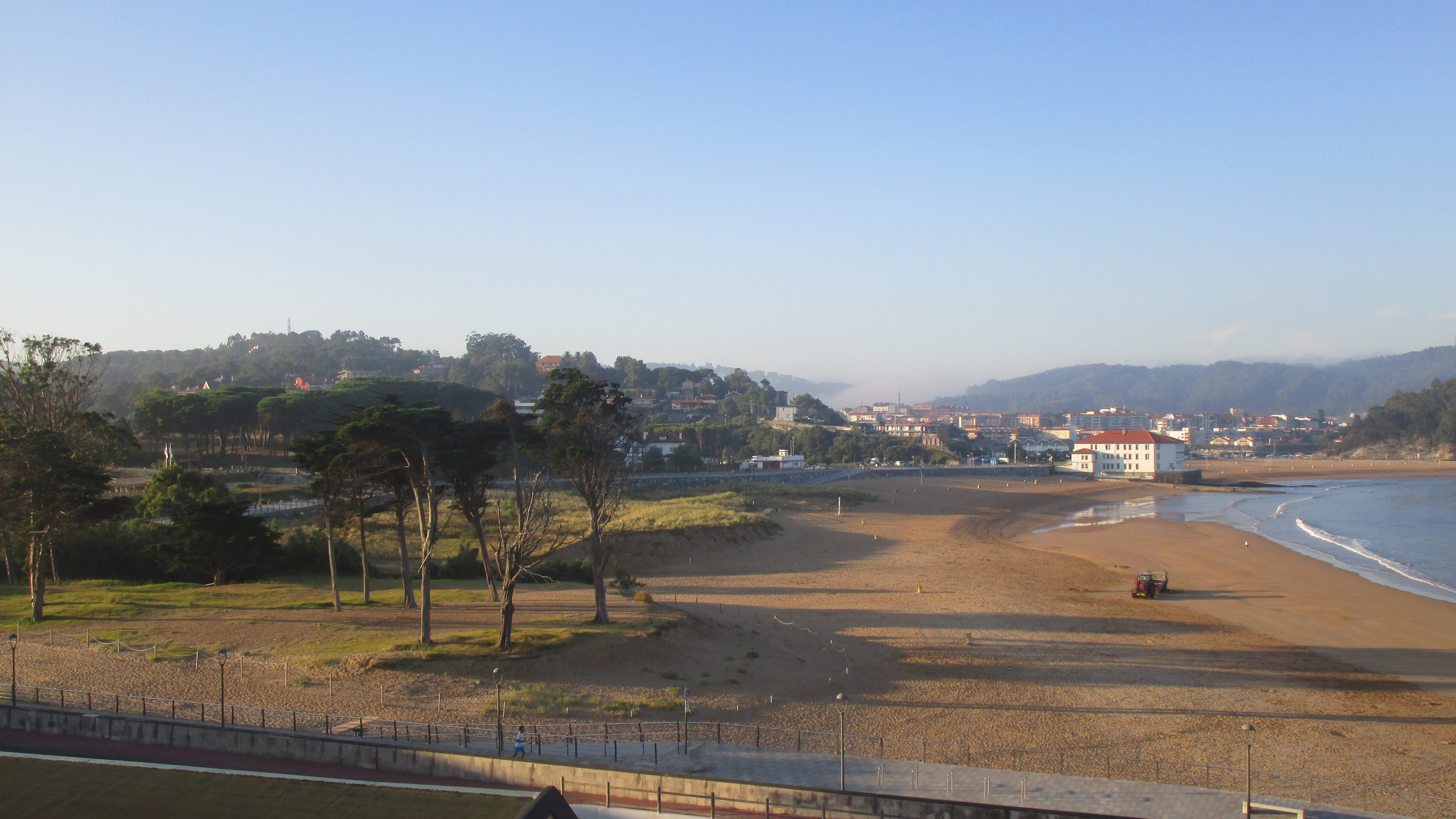 Beach of Gorliz, Biscay, Basque Country, Spain. August 25, 2016